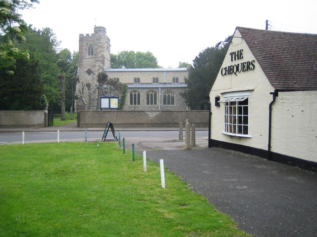 All Saints' parish church, Luton Road, Caddington, Bedfordshire, with The Chequers public house on the right